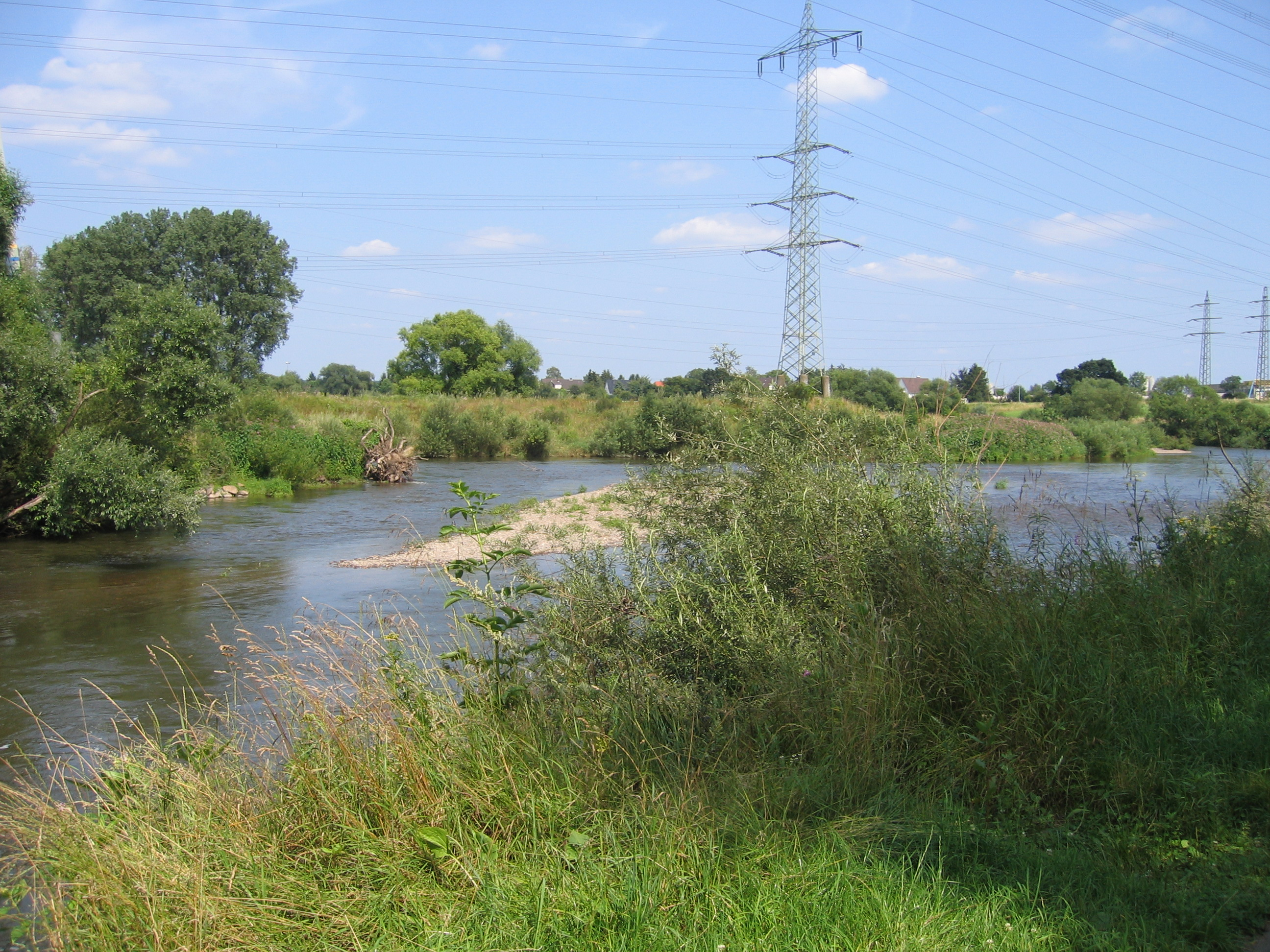 The german river Sieg, near the city of Siegburg.